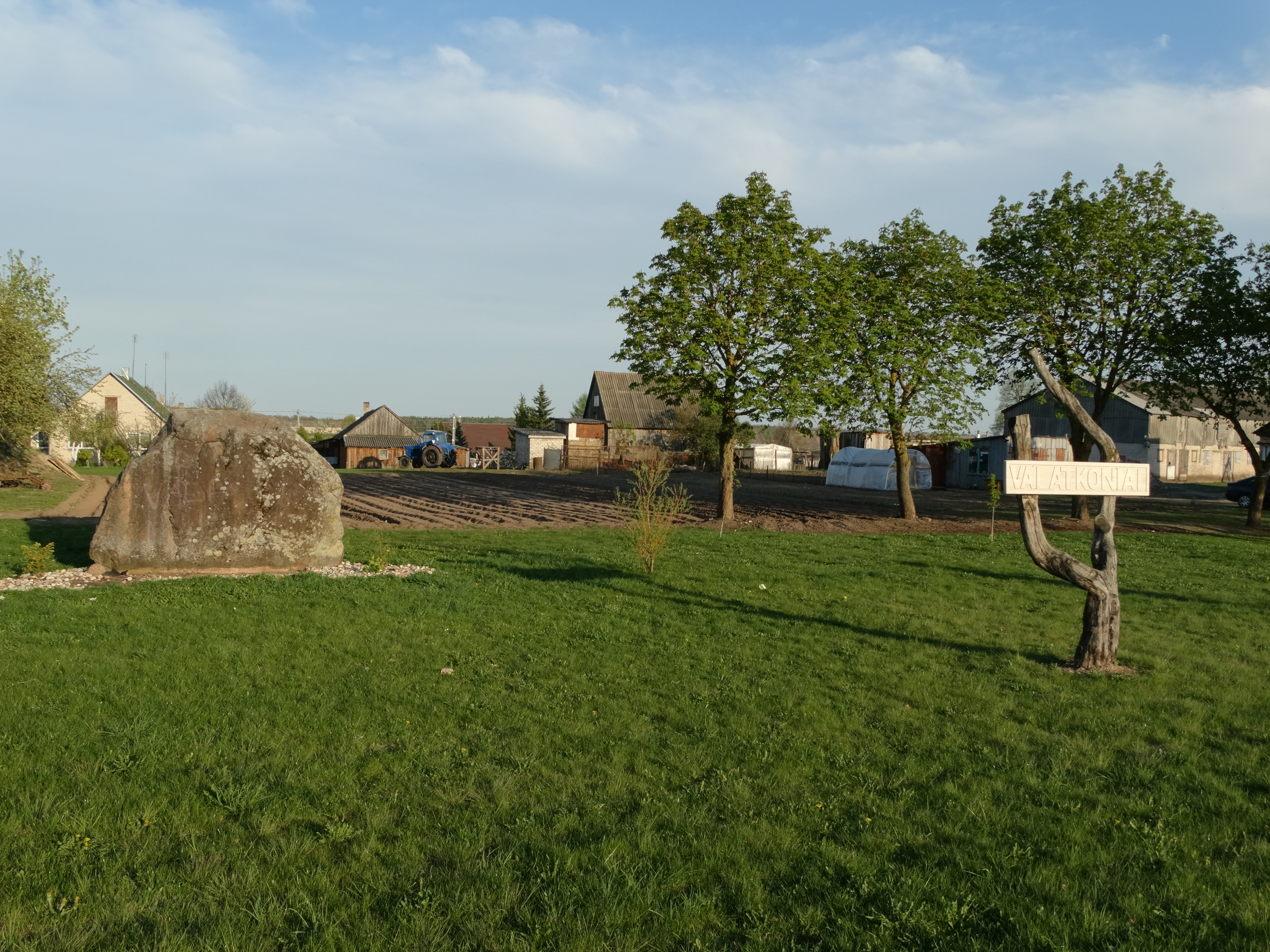 Valatkoniai, Radviliškis District, Lithuania